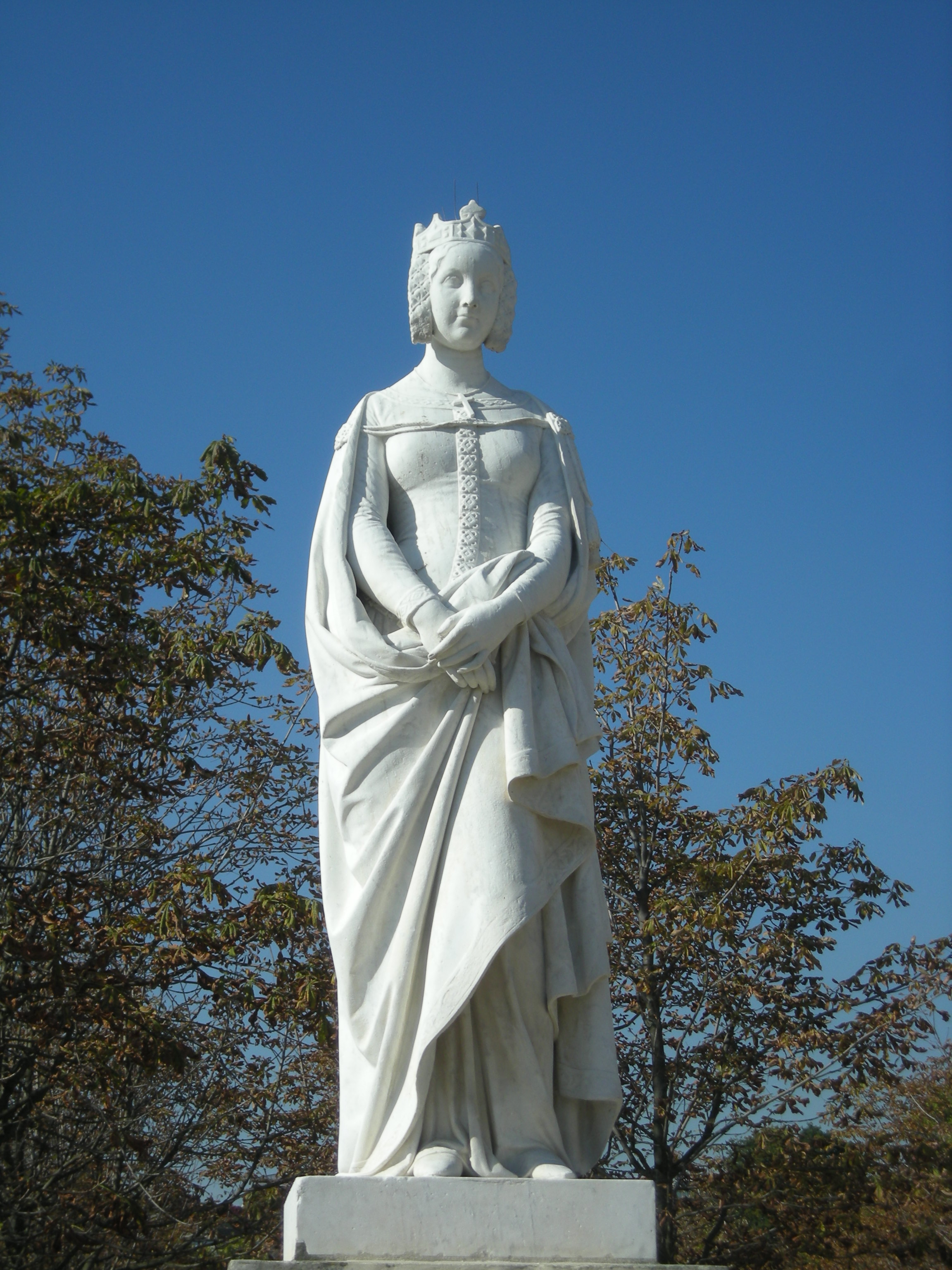 The Queens of France and Famous Women, a series of sculptures in the jardin du Luxembourg in Paris. It consists of 20 marble sculptures arranged around a large pond in front of the palais du Luxembourg.